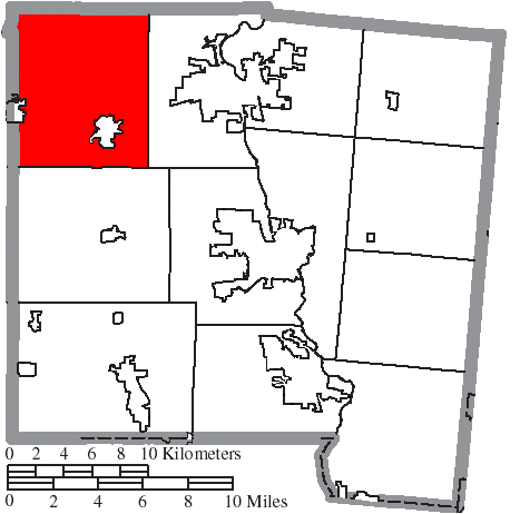 Map of the municipal and township boundaries of Miami County, Ohio, United States, as of the 2000 census, with the location of Newberry Township highlighted. Township borders are shown only in unincorporated areas in order to differentiate incorporated and unincorporated areas more clearly.